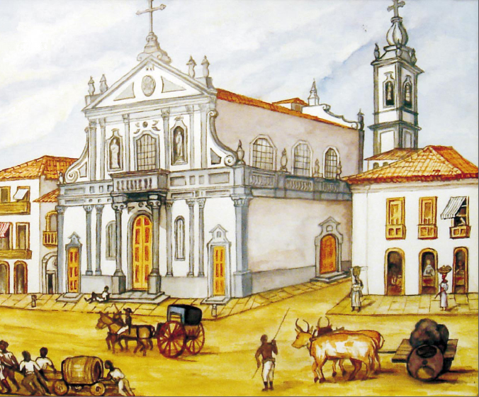 View of the Church of Santa Cruz dos Militares (Holy Cross of the Military) in Rio de Janeiro, Brazil (watercolour)